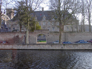 Picture of the Grootseminarie in Bruges, former Abbey of the Dunes